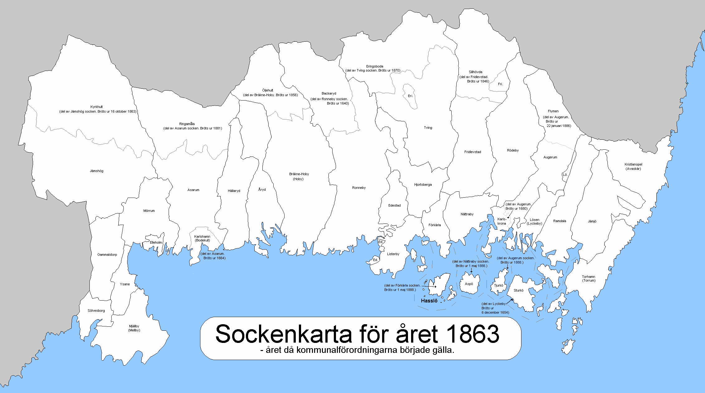 parishes in blekinge county